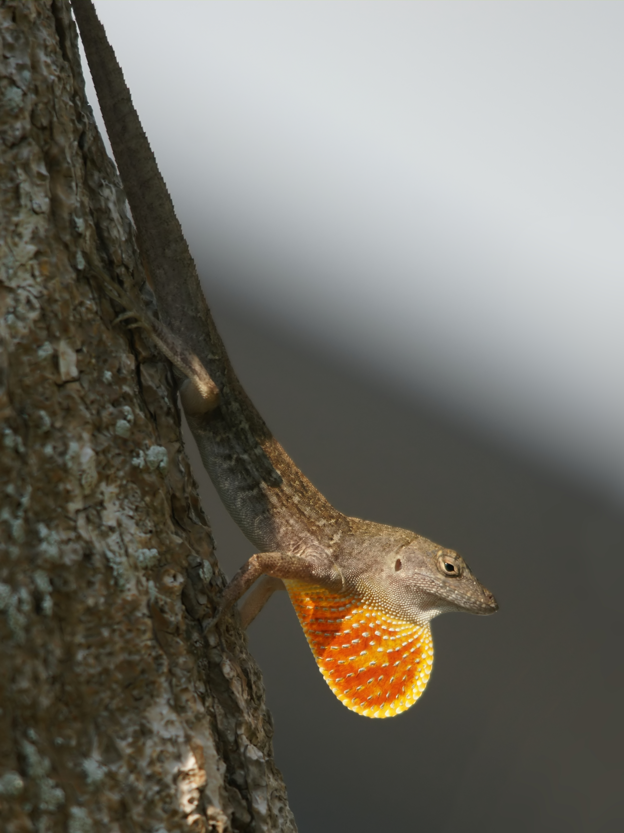 Male Brown Anole at Sanibel Island in Lee County, Florida, U.S.A.